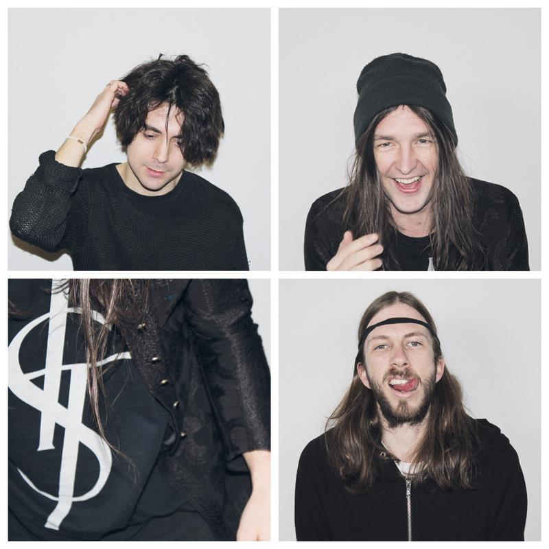 IS TROPICAL